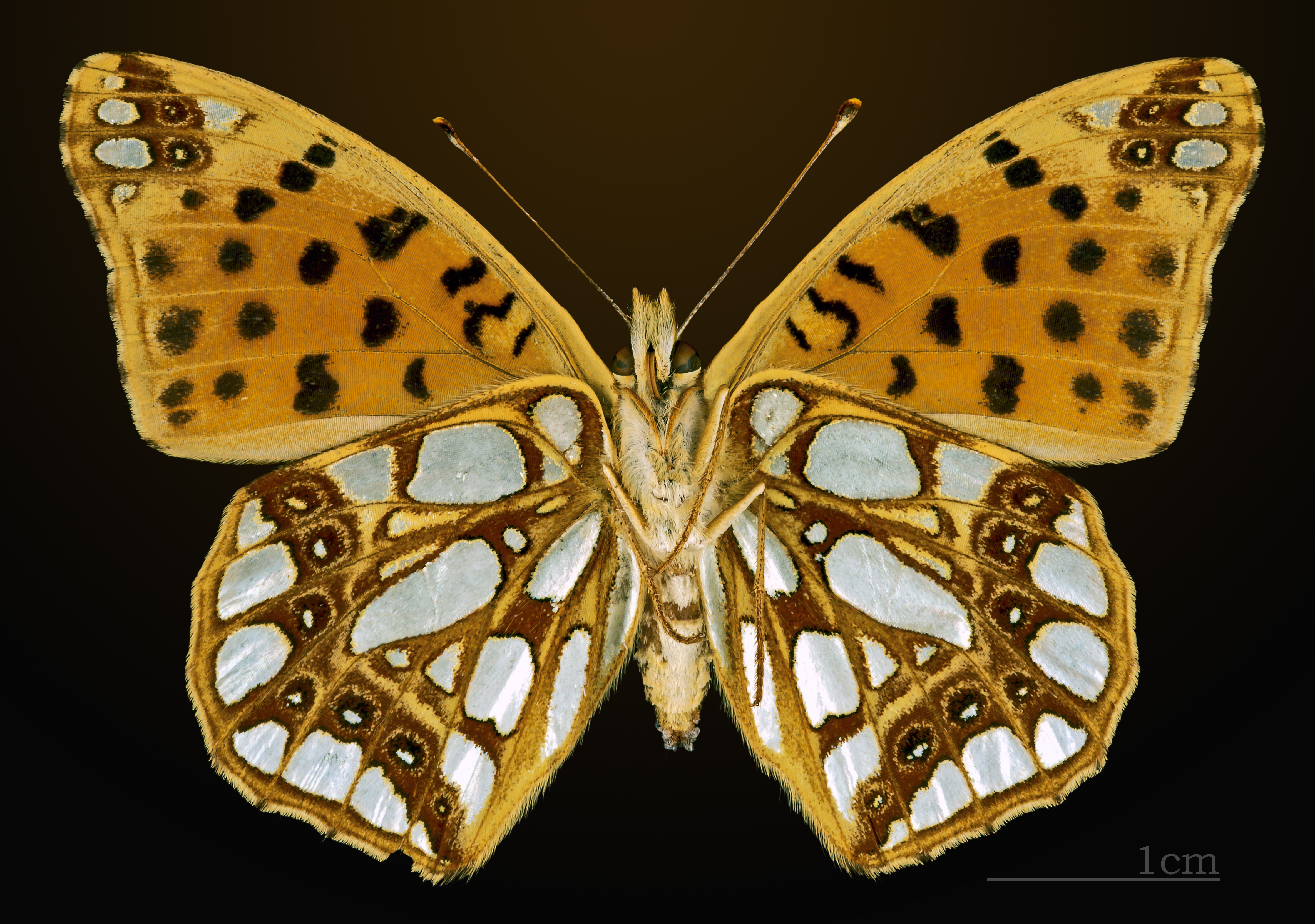 Queen of Spain fritillary - ♀ △ Ventral side Locality:Meyrueis, Lozère, France